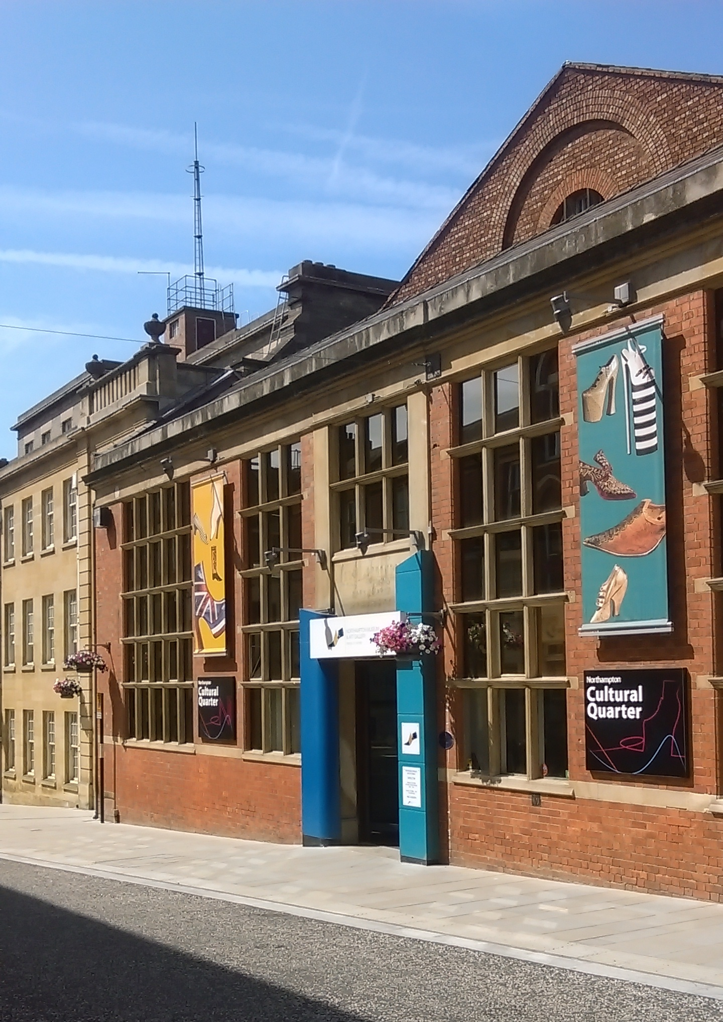 The main entrance to Northampton Museum